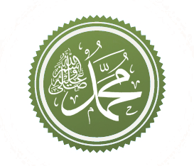 Without background logo of muhammad